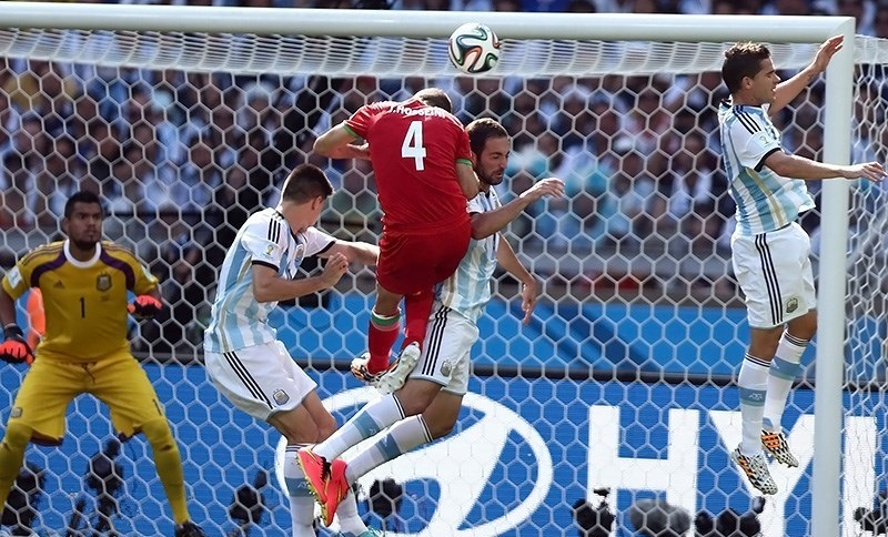 Iran and Argentina national football teams match, 2014 FIFA World Cup Group F